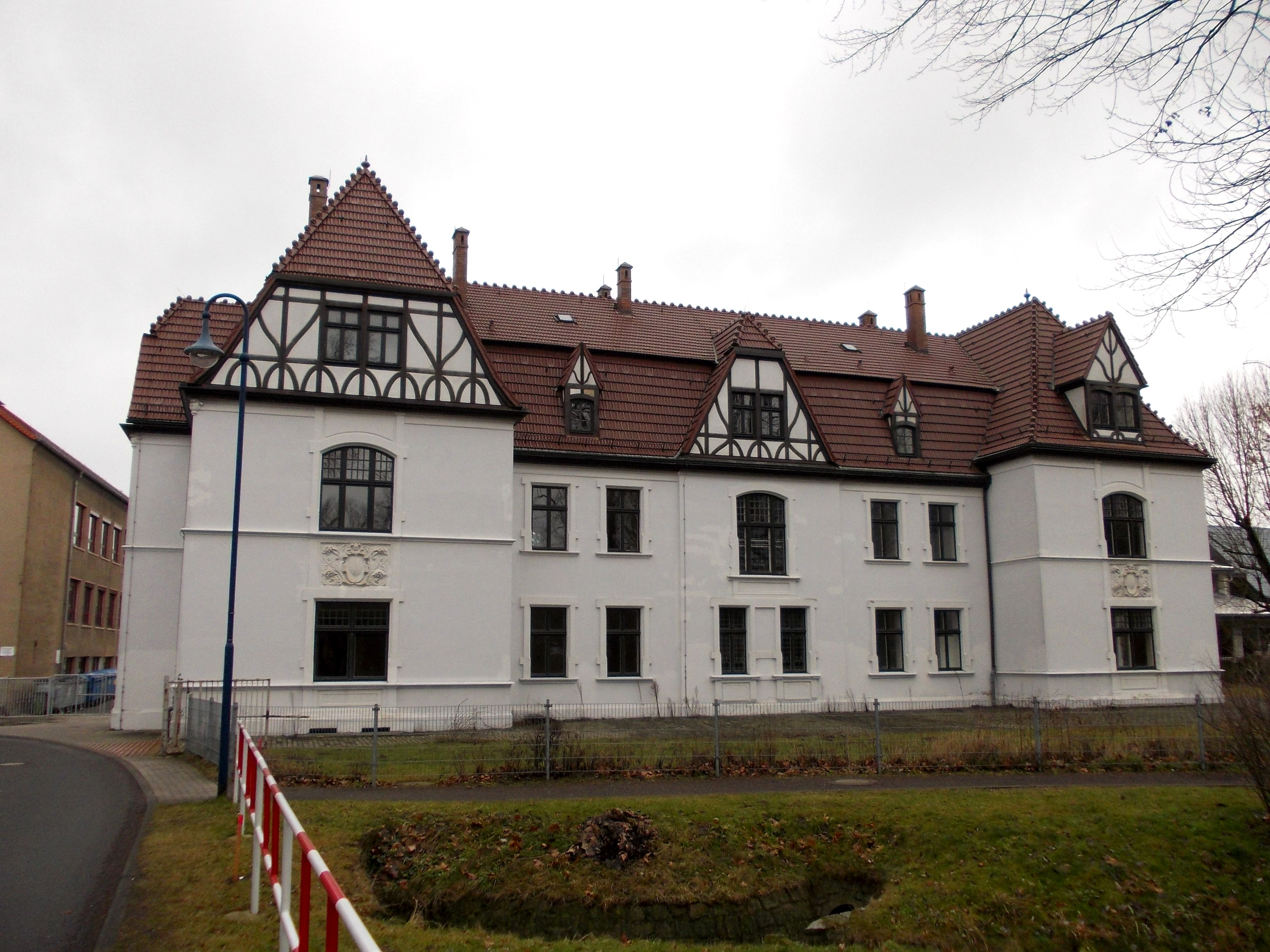 Manor house of Güntheritz estate in Rackwitz (Nordsachsen district, Saxony)